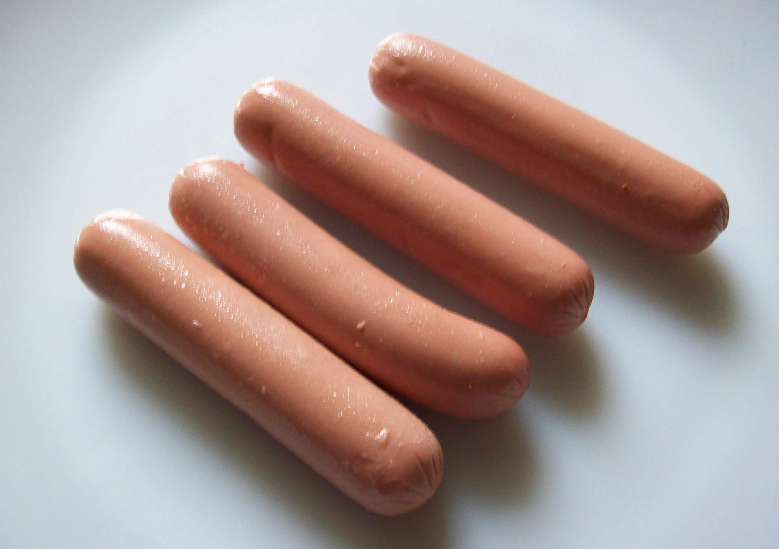 Vegetarian Sausages, contains water, oil, soy, onion, egg, wheat and spices